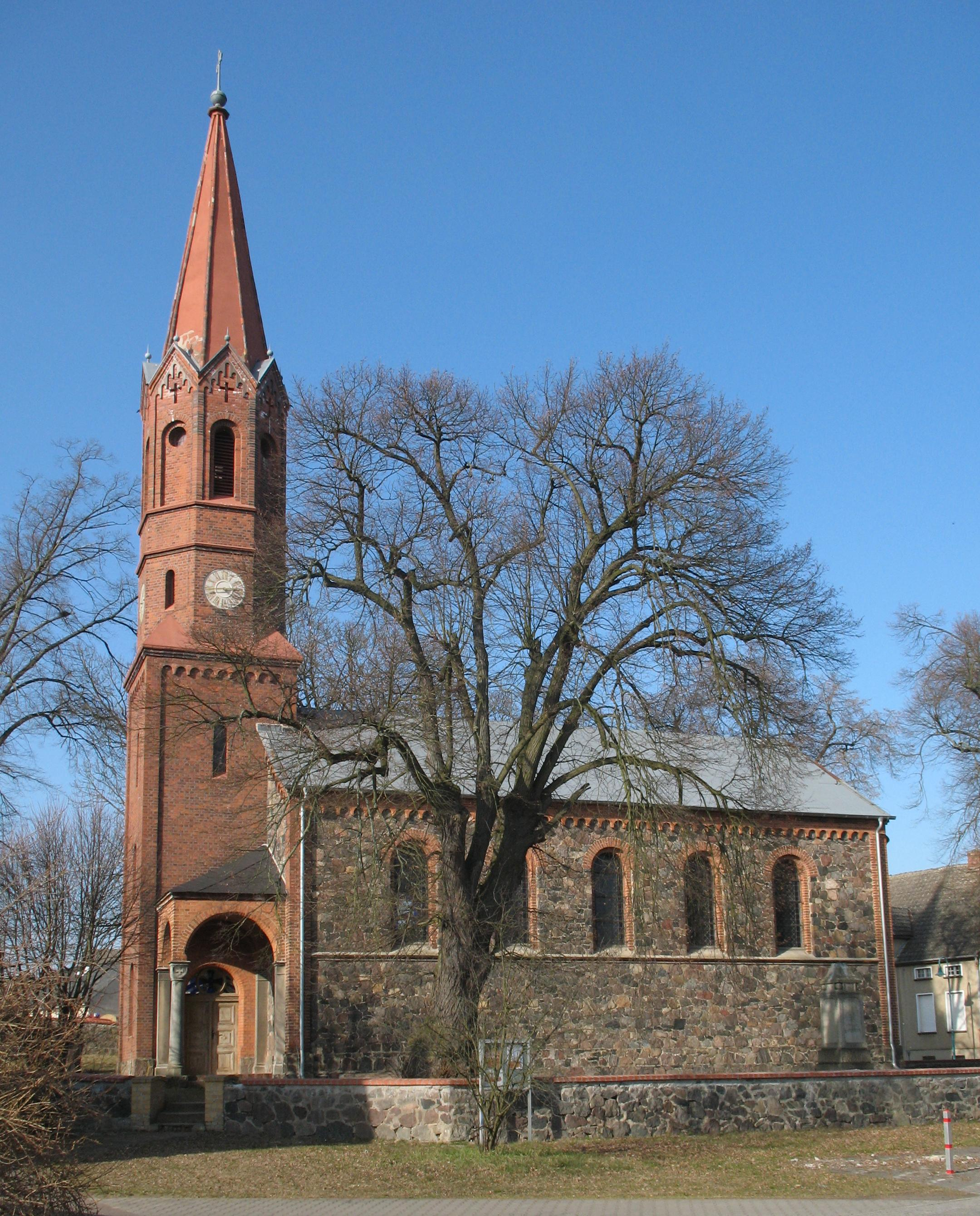 Church in Groß Kreutz-Bochow in Brandenburg, Germany